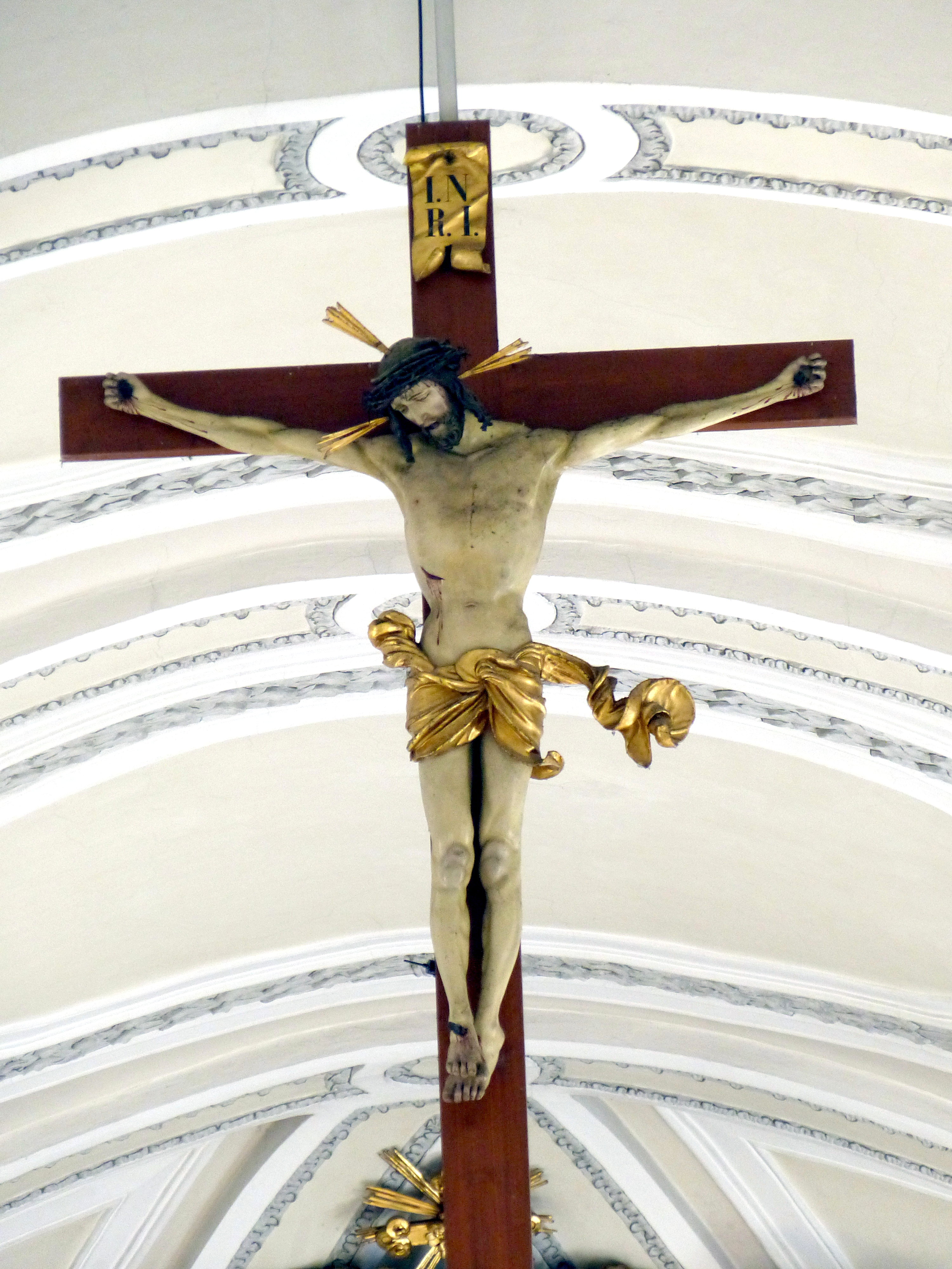 Landau an der Isar ( Lower Bavaria ). Mary Assumption parish church: Crucifix ( 15th century ).